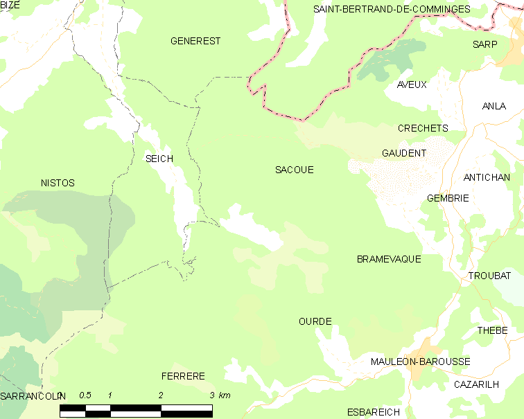 Map of French municipality